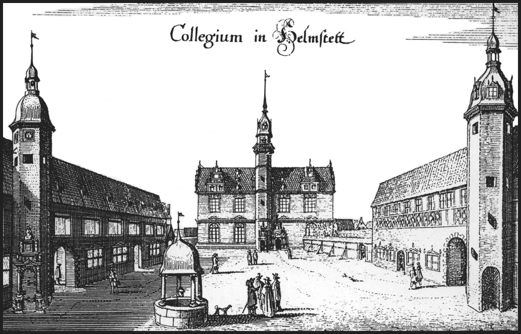 Universität Helmstedt / University of Helmstedt; Kupferstich / copper engraving of Matthäus Merian, 1654